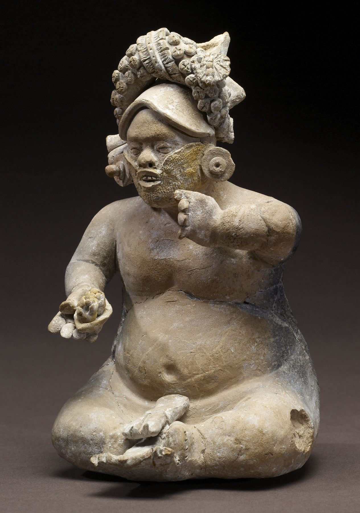 Dwarfs were important members of royal Maya courts. They are portrayed serving food, playing musical instruments, holding sacred objects for the ruler, and as diviners and scribes. Their elevated social roles were steeped in cosmology and religious mythology, especially that of the maize god, who was assisted by a dwarf when the deity set the Three Stones of the cosmic hearth at the beginning of Creation. The Classic Maya viewed dwarfs as the living embodiment of the maize god's supernatural helpers, who continued their sacred duty in the regal court. Maya peoples today believe that earlier creations were populated by a race of dwarfs who now reside inside the earth, living below the ruins of the ancient cities. The ornate turban worn by this dwarf is typical of the courtly garb of key individuals serving the ruler. This so-called spangled turban headdress is especially connected to gods and humans associated with Creation and scribal duties. A curious feature of this dwarf is what may be a halved cacao pod held in his right hand. His cheeks are covered with what appears to be a thin, woven fabric; this recalls other figurines, many of which are dwarfs, with an unidentifiable material plastered to the lower half of their face. These features suggest the depiction of a formal rite. The graceful rendering of this figure and the exceptional attention to detail reveal the work of a master artist.